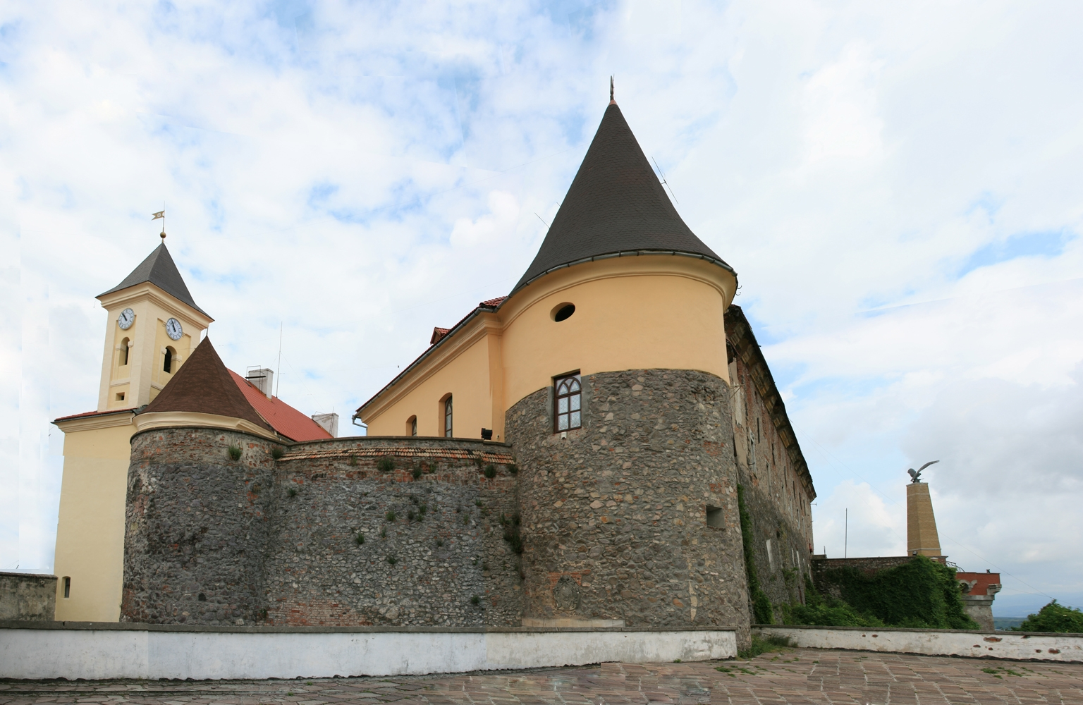 Palanok Castle in Mukachevo, Ukraine